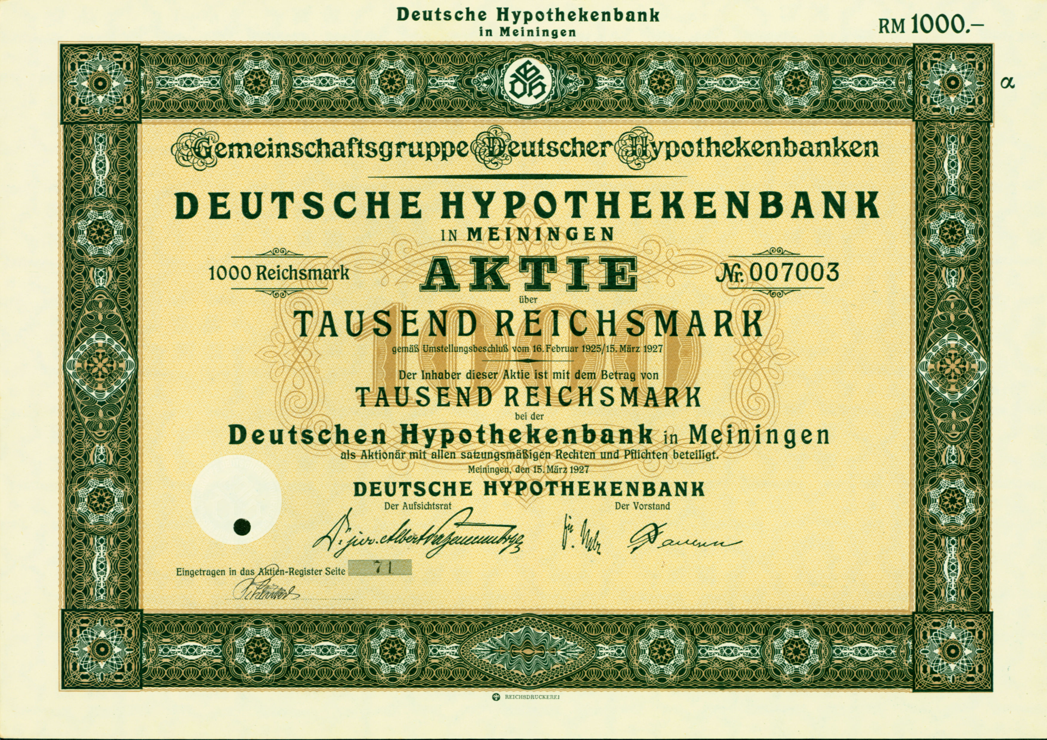 Share of the Deutsche Hypothekenbank in Meiningen, issued 15. March 1927